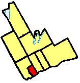 Location of Ajax in Durham Region,Ontario